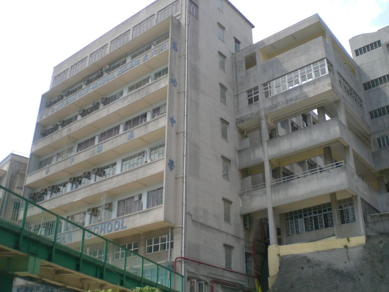 Salesian English School, Hong Kong